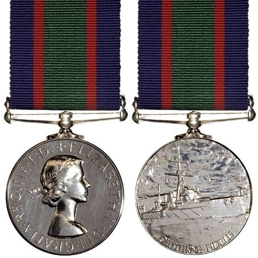 The second Queen Elizabeth II version of the Royal Naval Volunteer Reserve Long Service and Good Conduct Medal